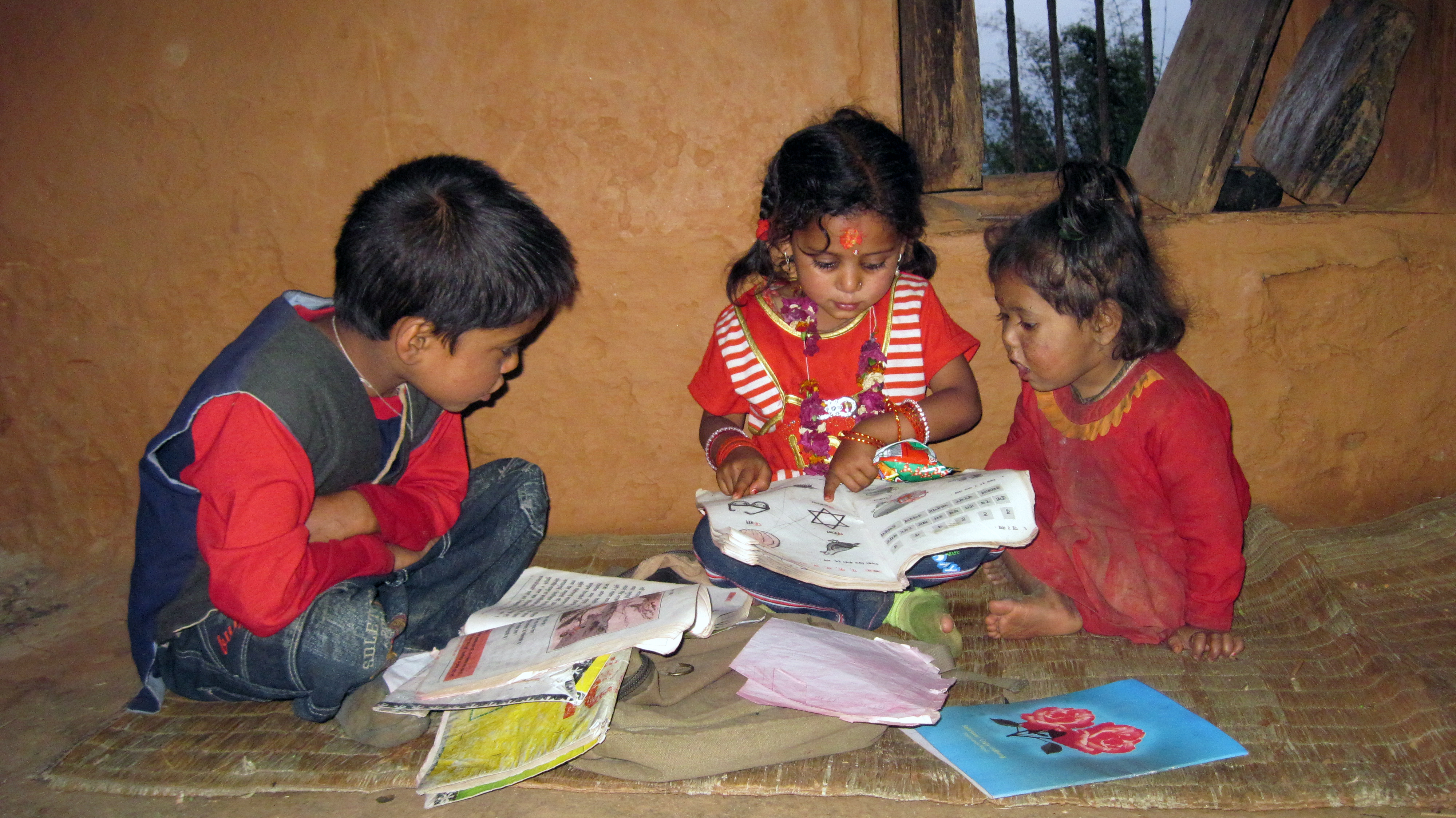 Three Children reading book together in a village of Nepal.